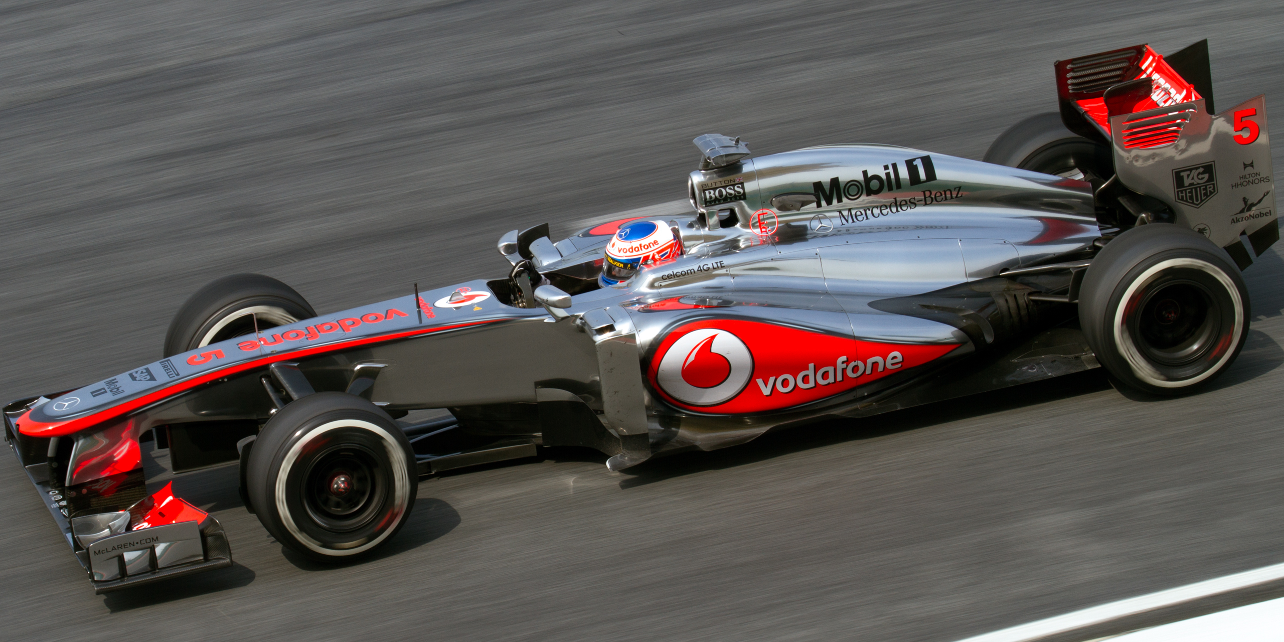 Formula One 2013 Rd.2 Malaysian GP: Jenson Button (McLaren) during the second practice session on Friday.